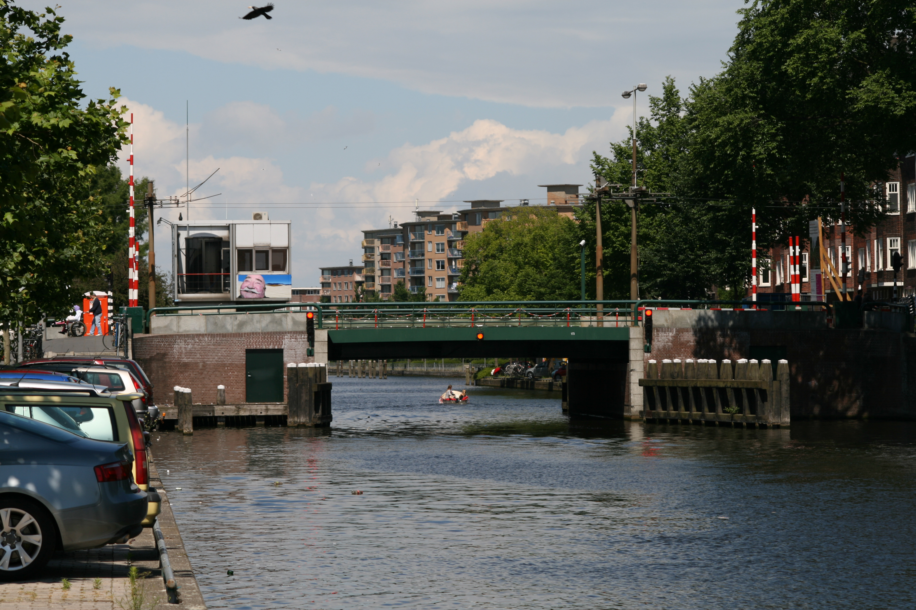 The bridge Wiegbrug in Amsterdam, the Netherlands